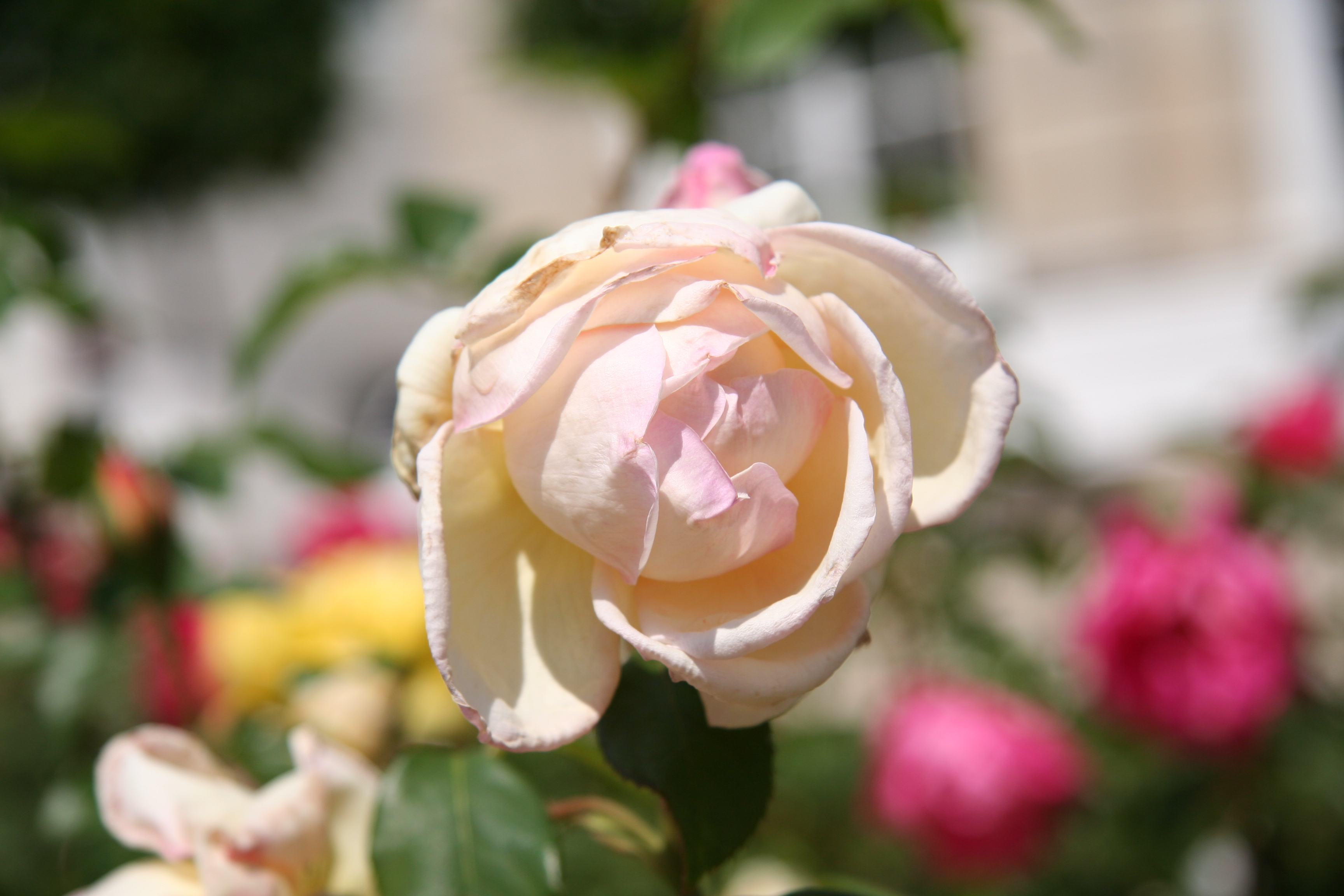 Comtesse de Cassagne rose - Bagatelle Rose Garden (Paris, France).